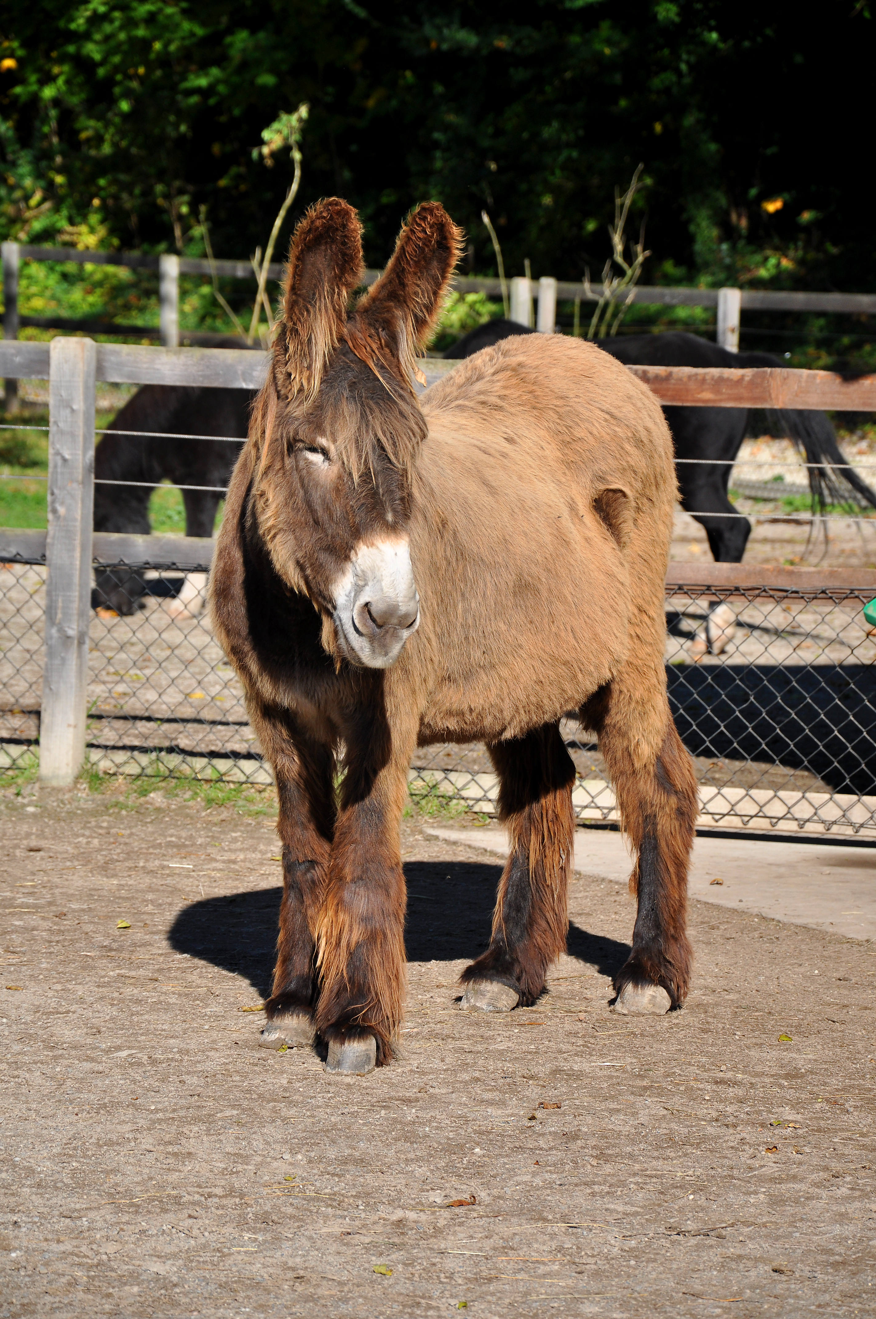 A Poitou donkey